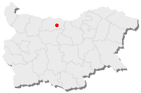 Map of Bulgaria, the red point is the position of Slavyanovo.